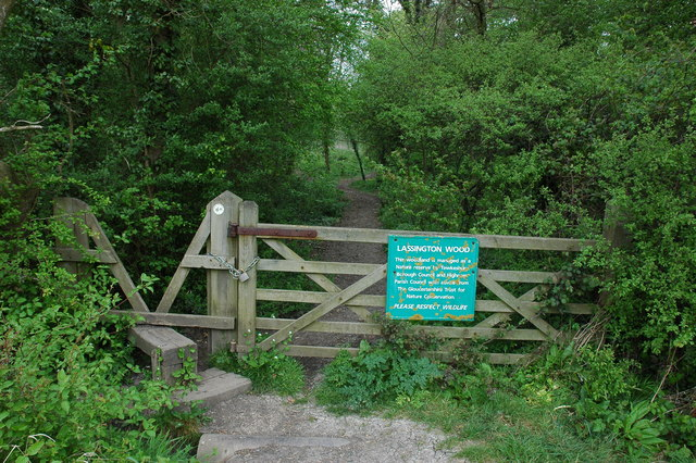 Lassington Wood Gate and stile into Lassington Wood Nature Reserve. The wood has a large variety of birds, from owls to nightingales, plant species and other wildlife. A specially designed walk is available from the Tourist Information Centre.